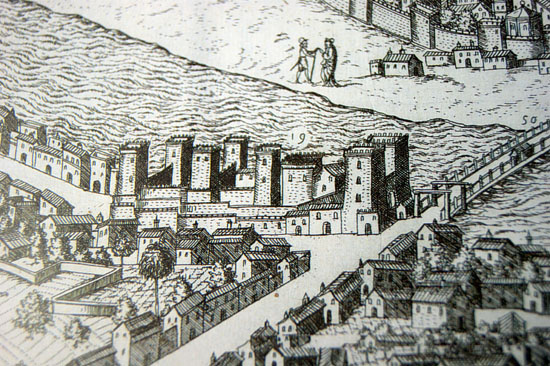 Castle of San Jorge (Seville) when this served as jail for the Inquisition.